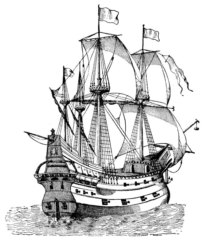 Illustration of a 15th century galleon, found in The Story of the Barbary Corsairs' by Stanley Lane-Poole, published in 1890 by G.P. Putnam's Sons.